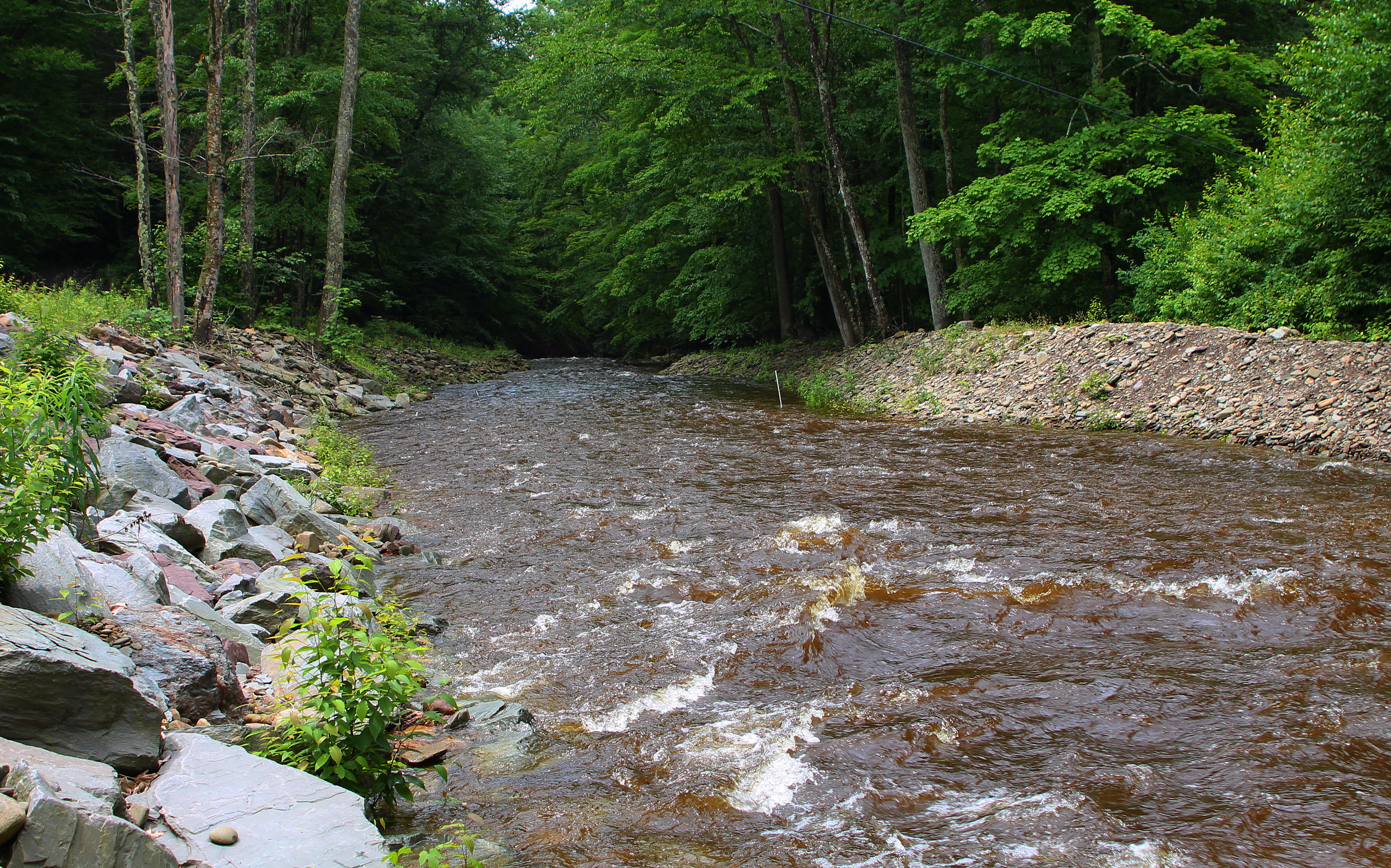 East Branch Fishing Creek looking downstream in 2015